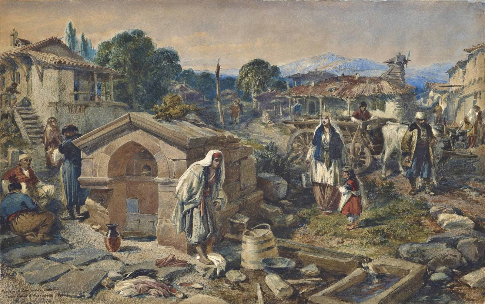 William Simpson. A Tartar Village of Warnoutska - Crimea 1858